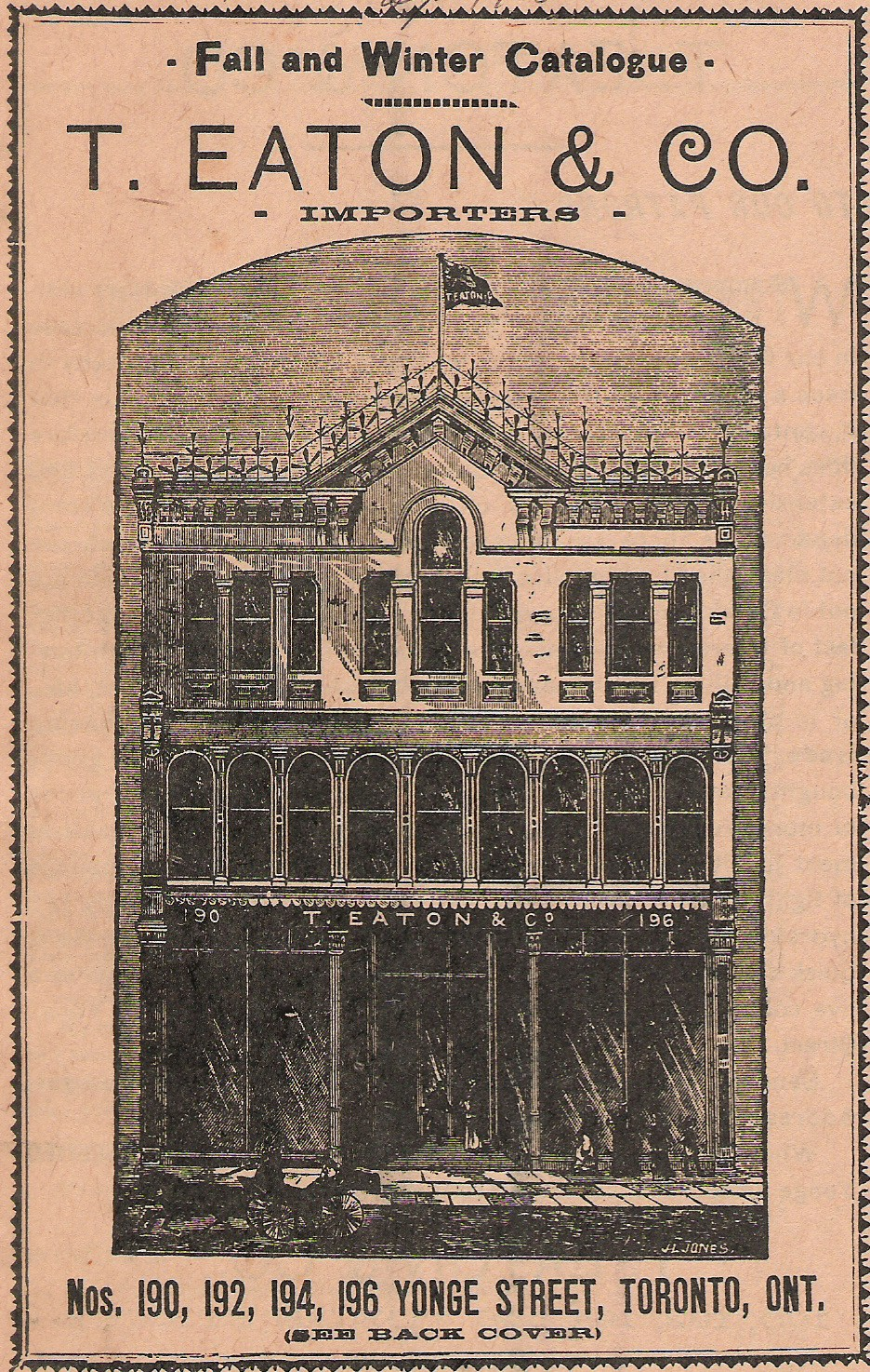 Cover of first Eaton's catalogue in 1884, picturing the, then, Eaton's store on Yonge Street, Toronto, Canada.